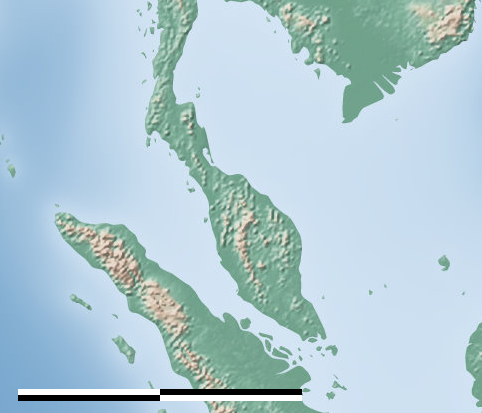 Derived from File:Malaysia-Airlines-MH370 map.png